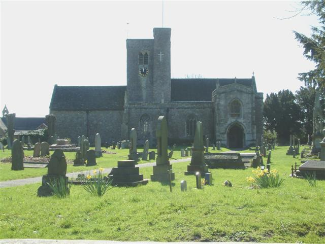 St. Mary's Church, Magor, Monmouthshire, Wales.